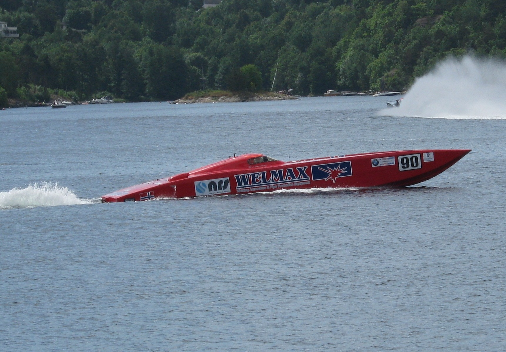 Norwegian Welmax 90 Class One offshore racing boat